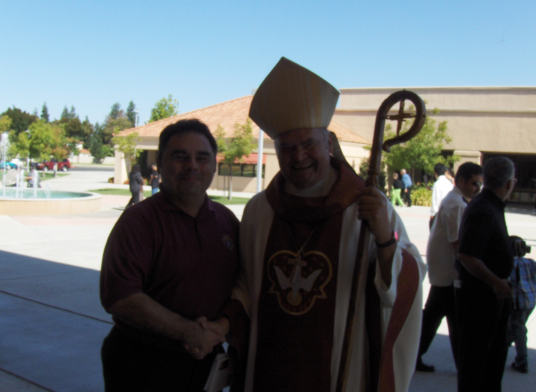 Bishop John Steinbock greets a fellow Knight of Columbus after Mass.